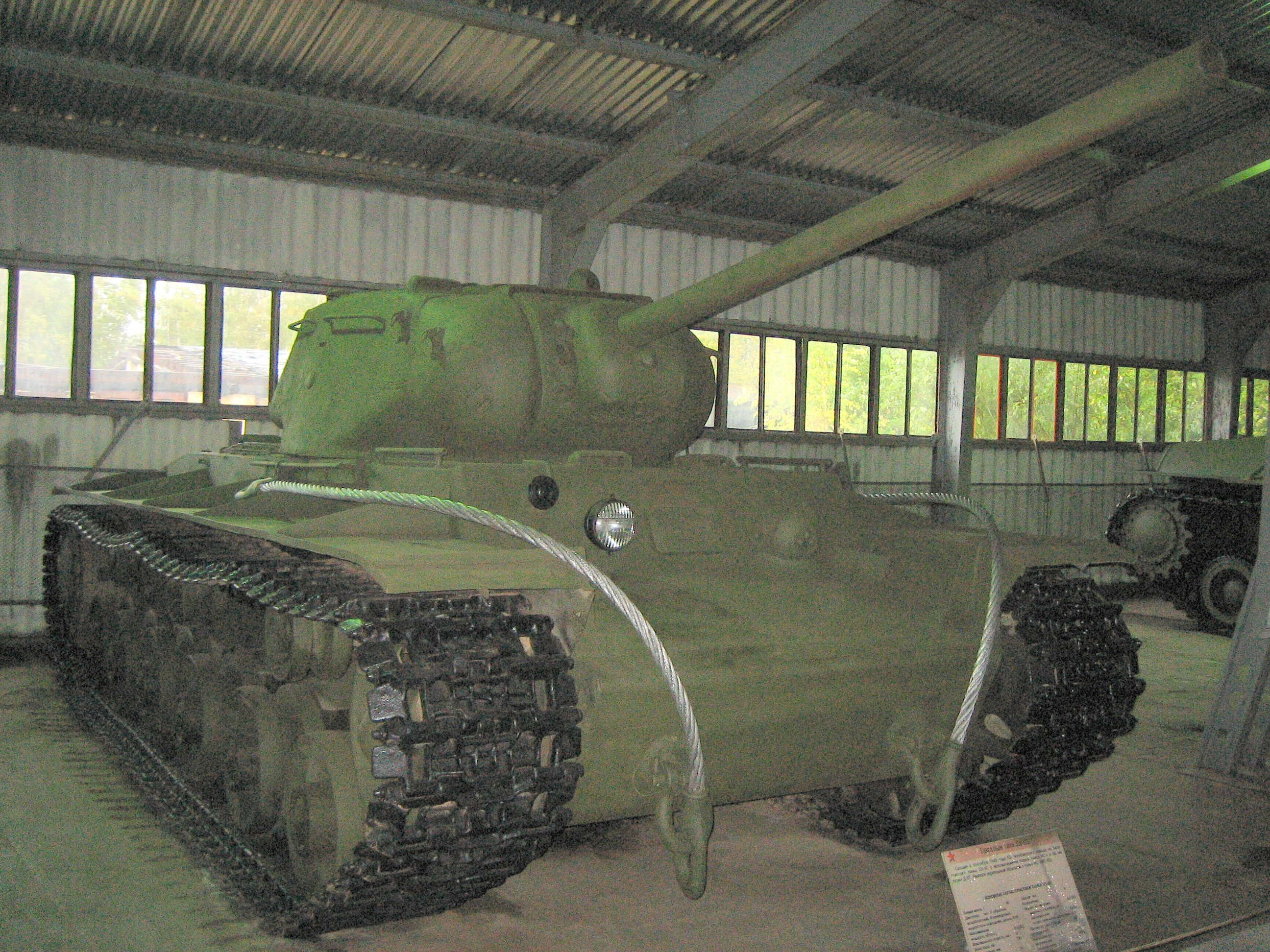 Soviet heavy tank KV-1s with 85 mm gun, displayed in Kubinka Tank Museum. Photo taken on September 9, 2007. Source: Photo by me, User:Saiga20K.